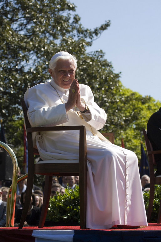 Pope Benedict XVI acknowledges guests Wednesday, April 16, 2008, during the arrival ceremony for the Pope on the South Lawn of the White House. Said Pope Benedict XVI during the ceremony, "Mr. President, dear friends, as I begin my visit to the United States, I express once more my gratitude for your invitation, my joy to be in your midst, and my fervent prayers that Almighty God will confirm this nation and its people in the ways of justice, prosperity and peace."